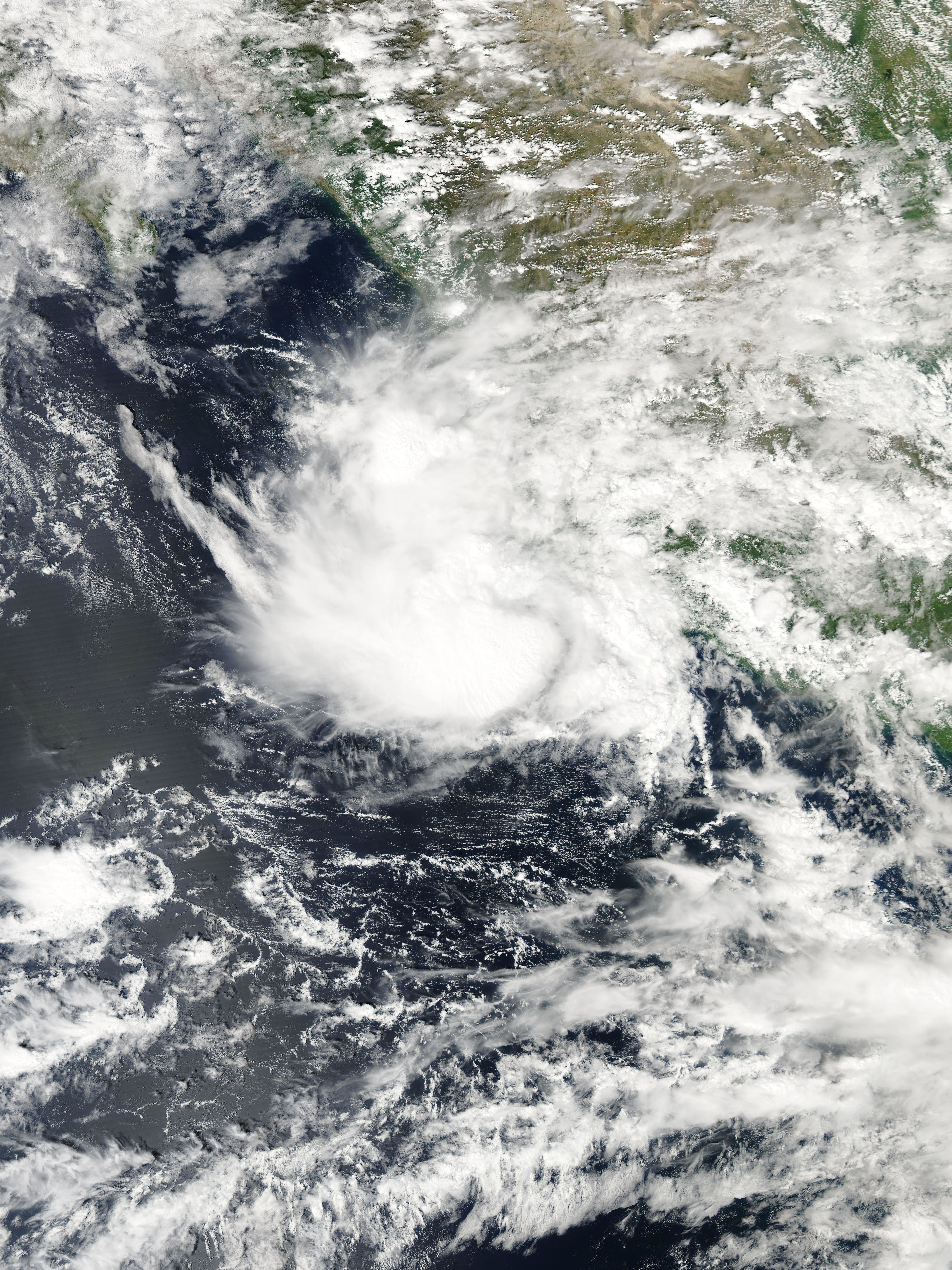 The MODIS instrument onboard NASA's Aqua satellite captured this true-color image of two tropical systems in the eastern Pacific Ocean: Tropical Storm Nora (upper left) and Tropical Storm Olaf (bottom right). At the this image was taken Nora had maximum sustained winds of 46 mph while Olaf had sustained winds of 50 mph and was forecast to slightly strengthen before making landfall near Manzanillo.